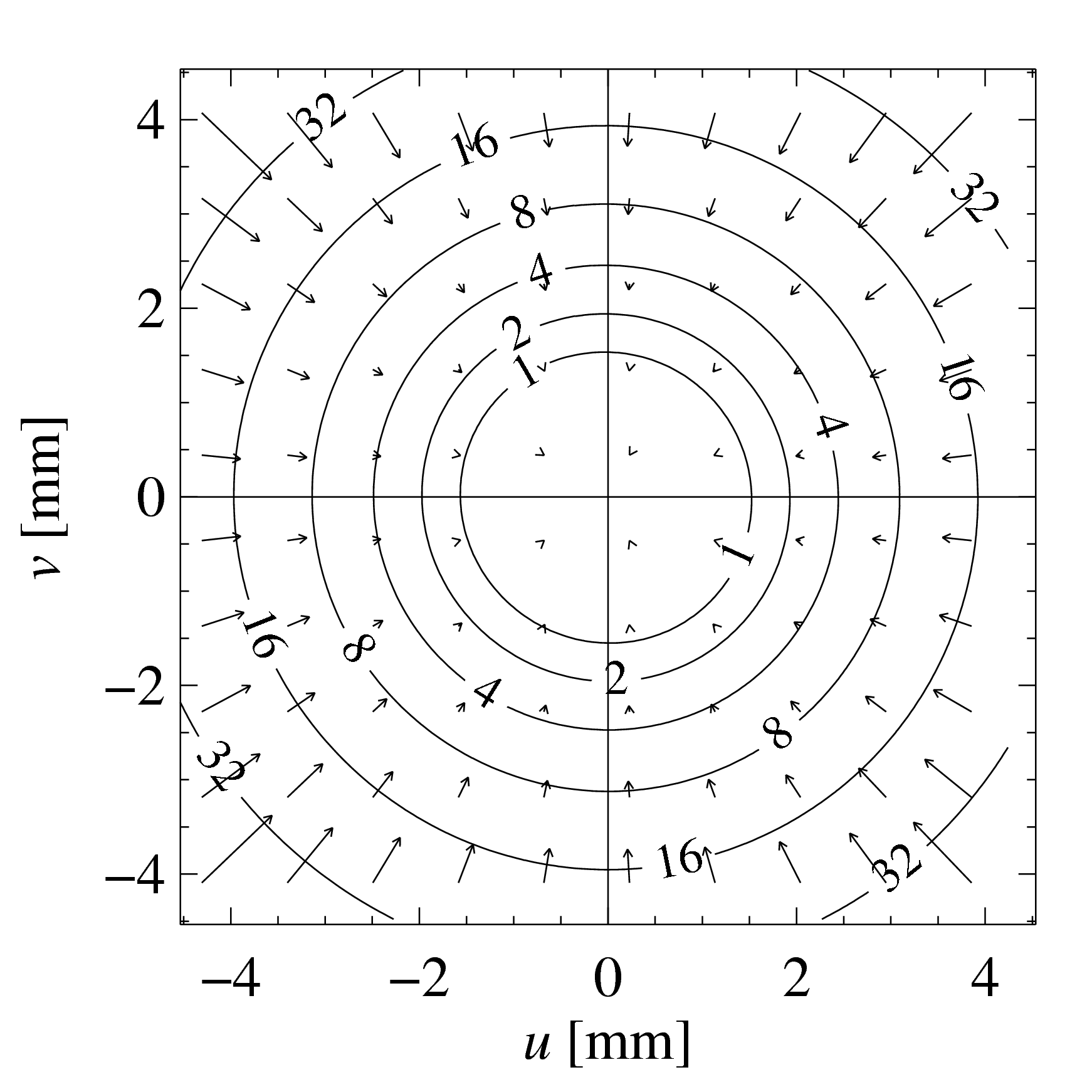 Photogrammetric correction of image distortions for a 20 mm Nikkor-Lens focused to 1 meter. The numbers on the iso-lines specify the length of the correction in millimeter. The length of the arrows corresponds to the 15-times length of the correction. The coordinates u and v are image co-ordinates. The applied mathematical modell has six degrees of freedom.